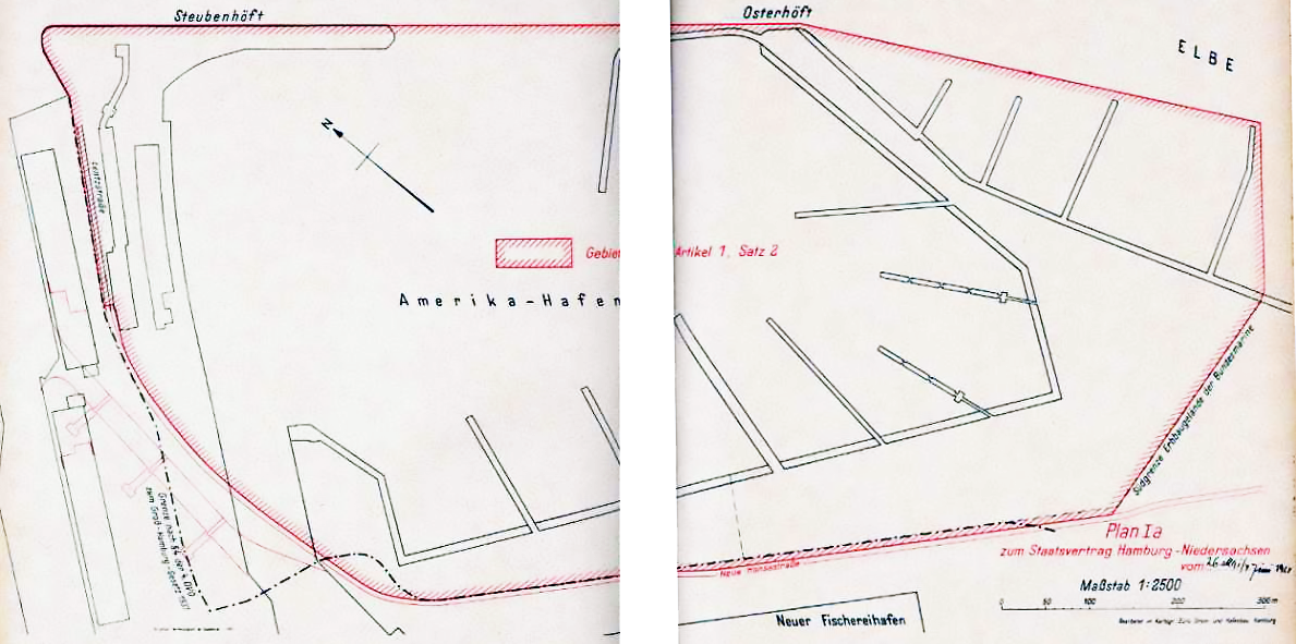 Area of the Amerika-Hafen according to the Cuxhaven-Vertrag